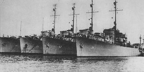 CSF(Coastal Safety Force of Japan) Ships